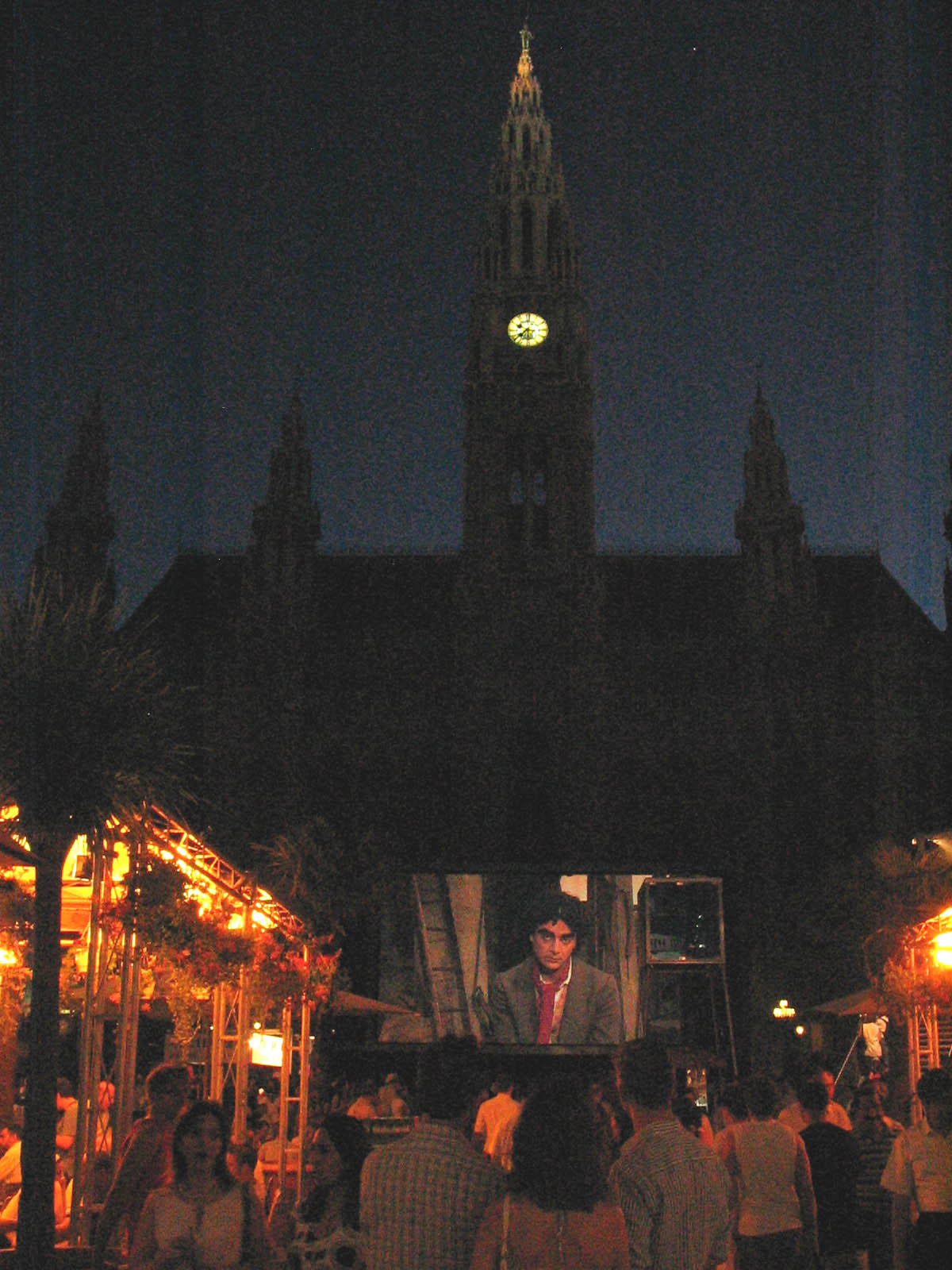 "Rathausplatz Film Festival" (June, August). Each evening, movies on music are shown open air, in HD quality on a 20x11,5m screen for up to 6000 spectators, free of charge. This evening's movie showed Donizetti's L'Elisir d'Amore, directed by Otto Schenk at the Wiener Staatsoper, with Anna Netrebko, Rolando Villazon, Ildebrando D'Arcangelo, Leo Nucci.